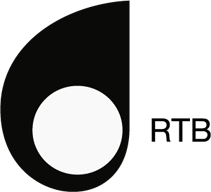 Old logo of Belgian channel La Une (RTBF) between 1960 and 1977